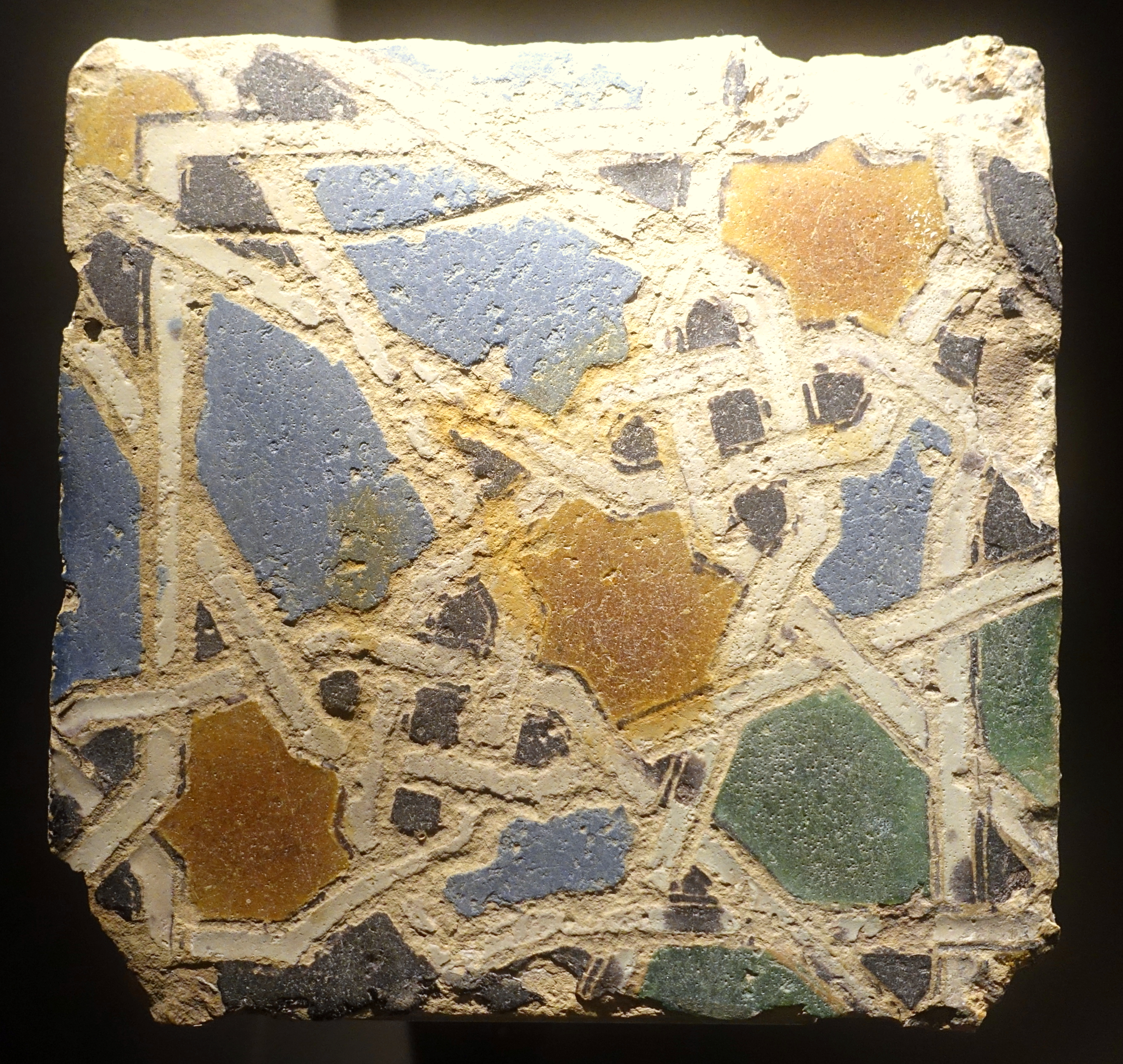 Ceramic tile in the Alcázar of Seville, Spain.